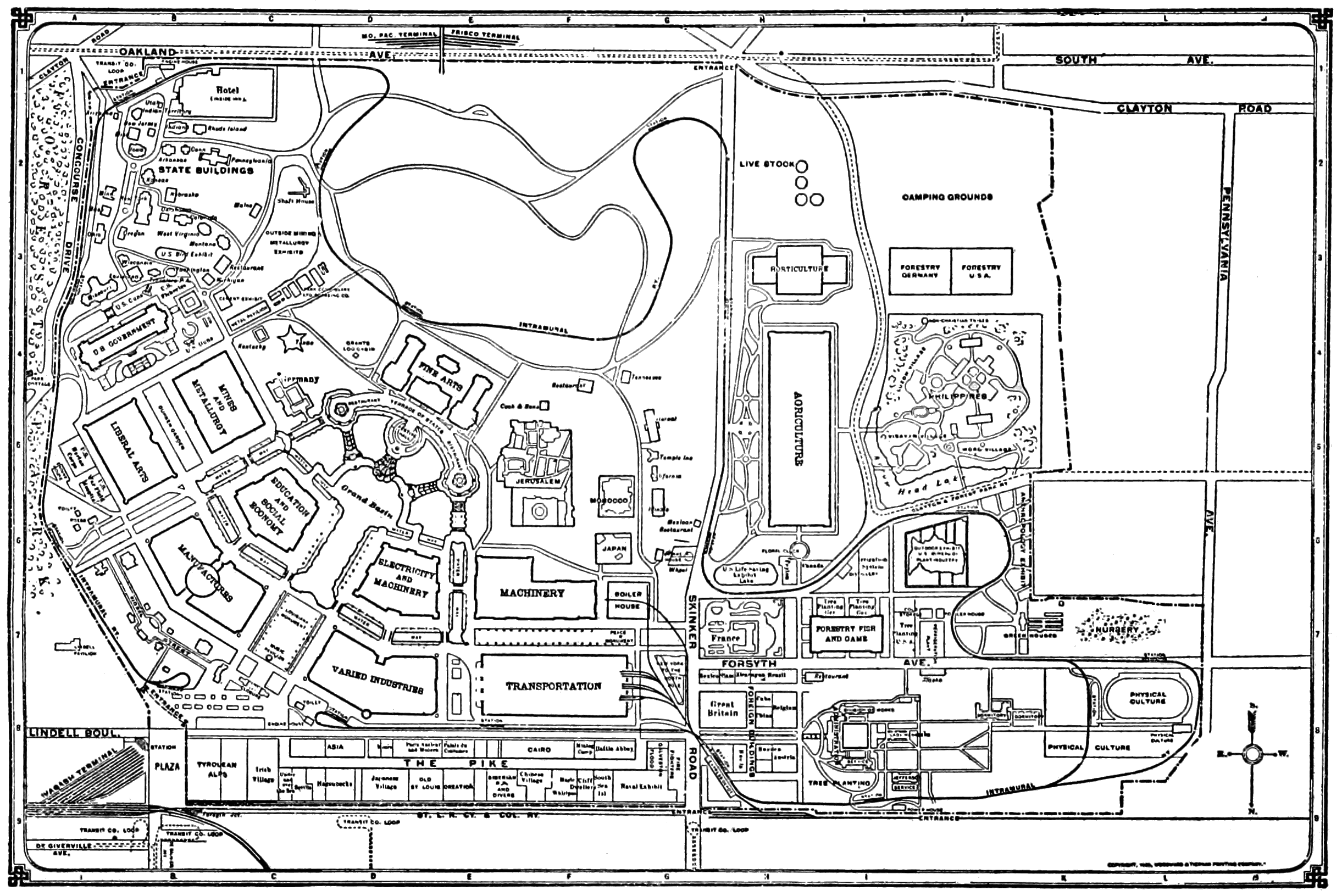 Plan of the St Louis Exposition grounds